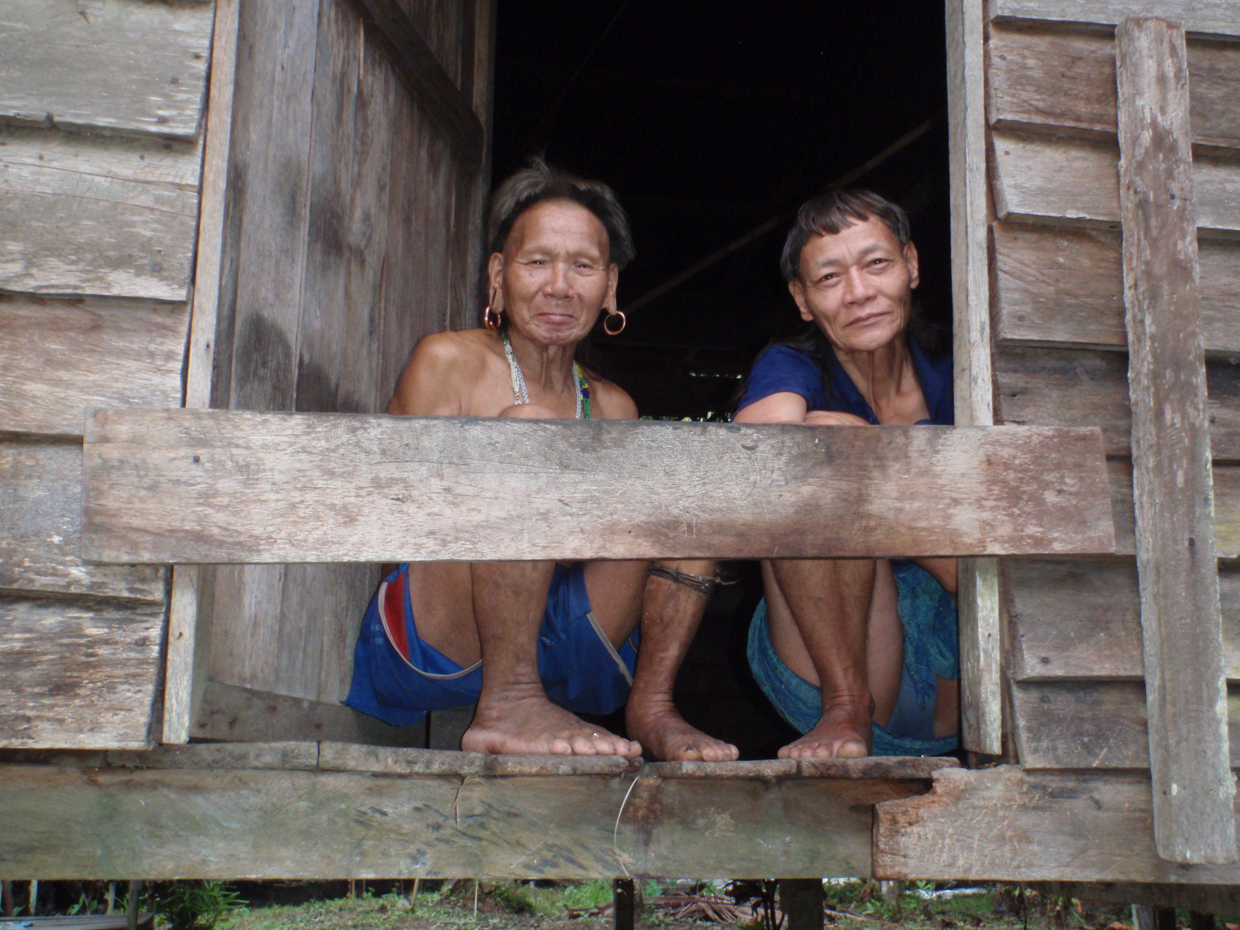 December (Moving Mountains Calender 2012)